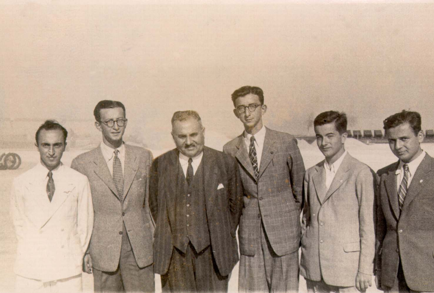 From left to right: Galip Demirağ (son of Nuri Demirağ), Ömer İnönü (son of İsmet İnönü, a student of the School of Engineering), Nuri Demirağ, Erdal İnönü (son of İsmet İnönü, a student of the Ankara Gazi High School), unknown, Mehmet Kum (a student of the School of Engineering)